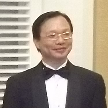 Tan Tin Wee at a meeting of the Internet Hall of Fame inductees 2012